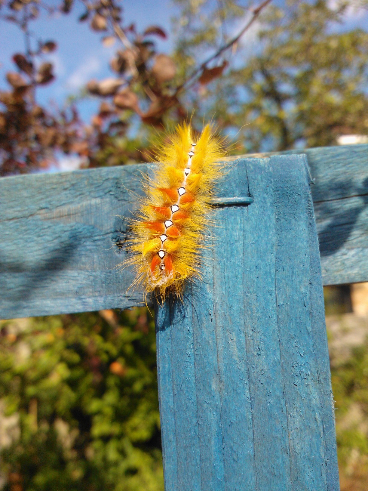 Sycamore Moth Larva (September 2012 UK)